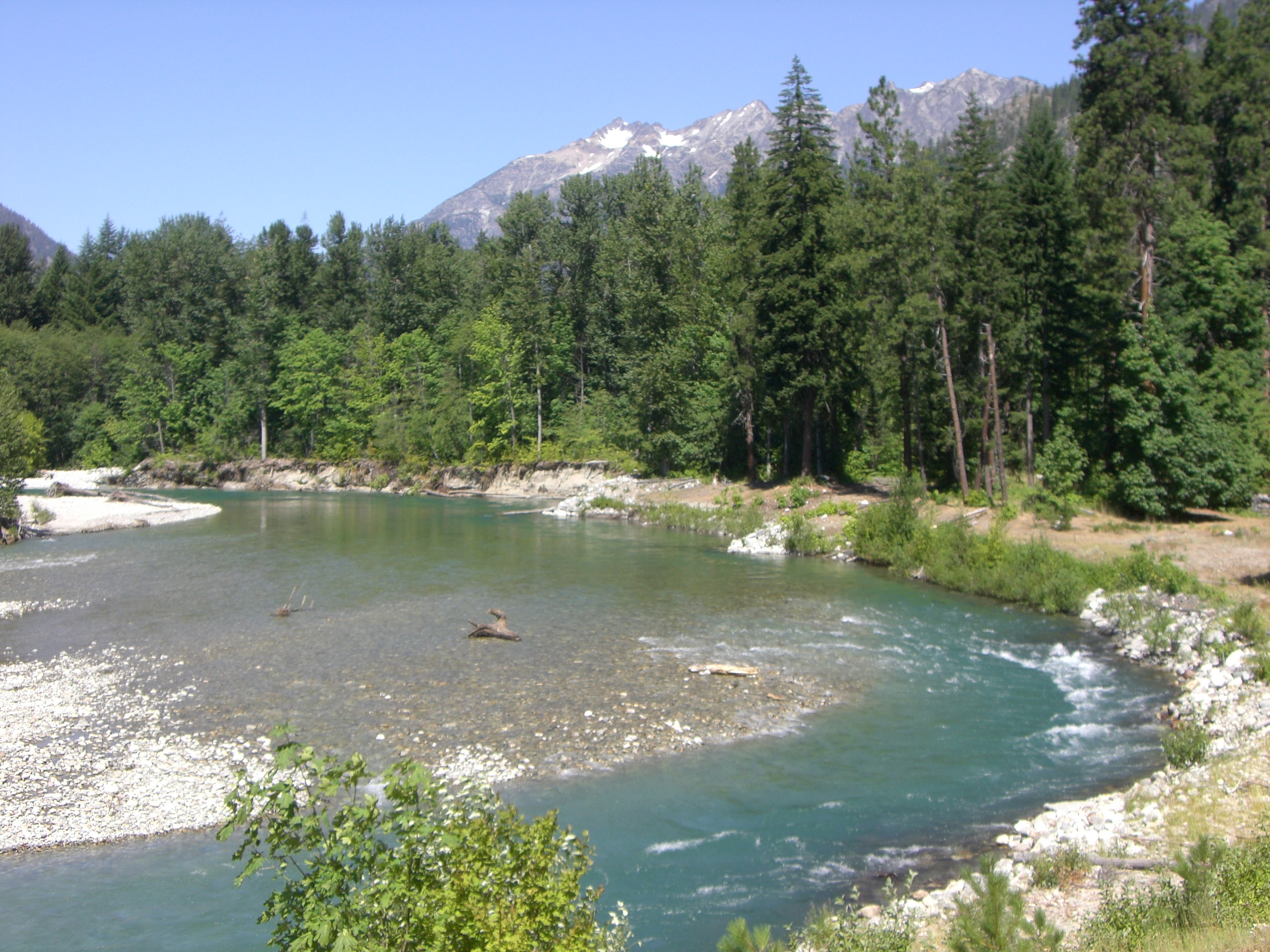 Stehekin River near the Buckner Homestead Historic District in the Lake Chelan National Recreation Area in the north Cascades of Washinton state.